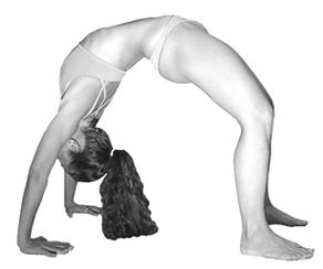 Rája Chakrásana